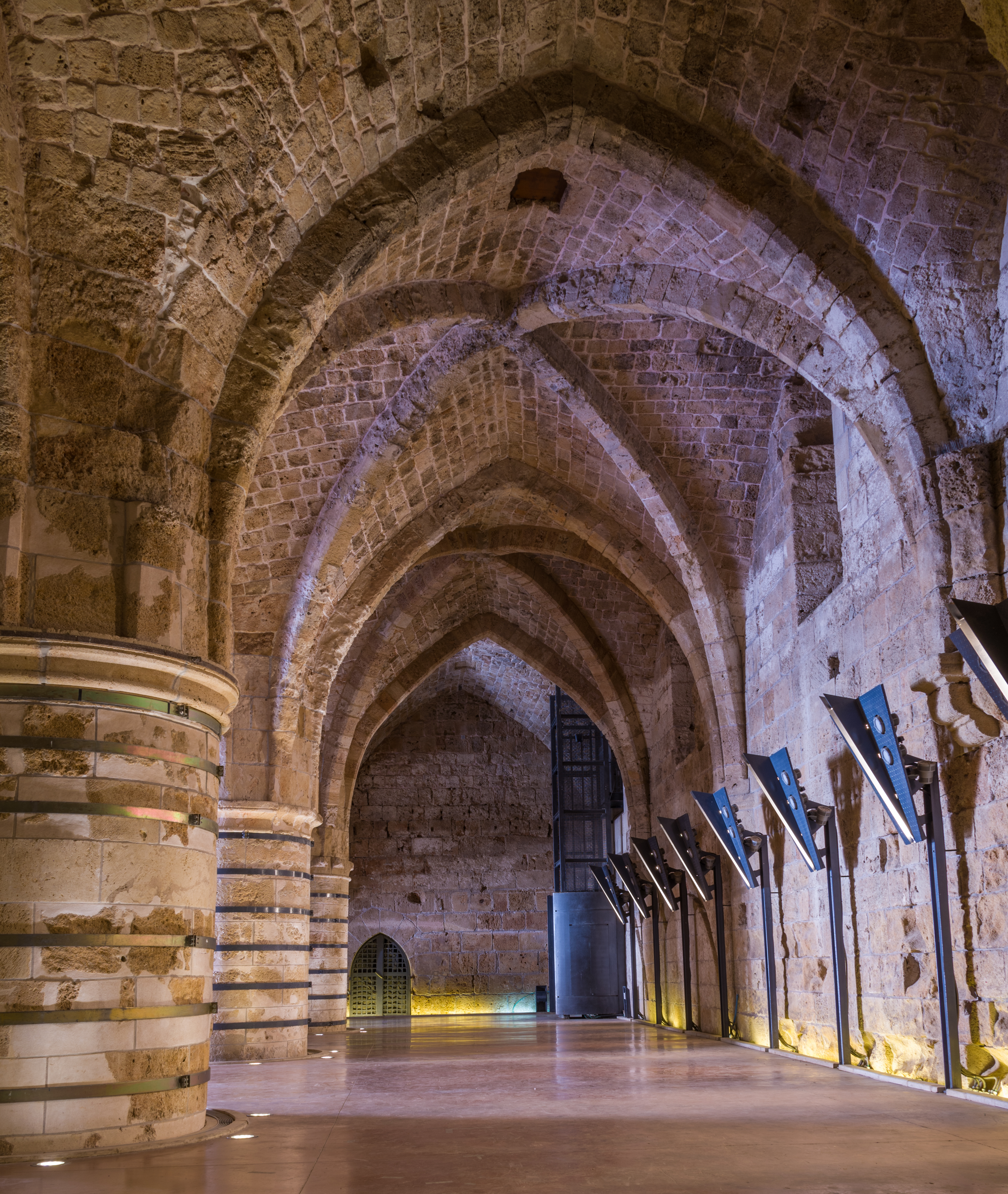 Interior of the Turkish fortress in Acre, Israel, based on a similar fortress built by the Knights Hospitalier in the city